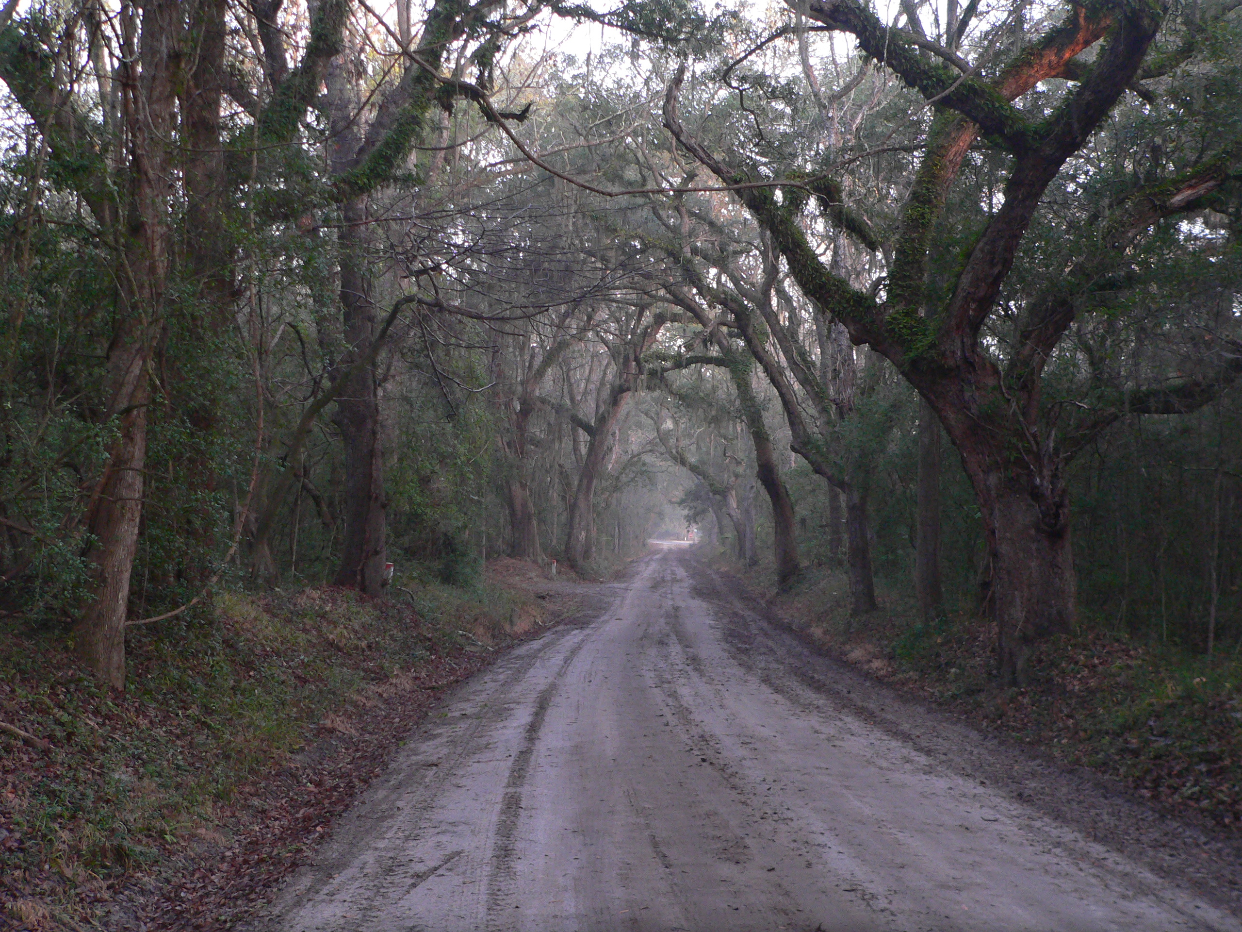 Portion of Wescott Road, lying just west of South Carolina Highway 174 on Edisto Island. Photo was taken at about sunrise.